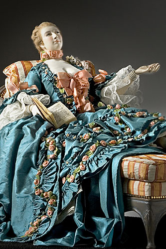 Historical Mixed Media Figure of Jeanne Antoinette Poisson, Madame de Pompadour produced by artist/historian George S. Stuart and photographed by Peter d'Aprix. This image, from the George S. Stuart Gallery of Historical Figures® archive ( is provided for all uses with appropriate attribution. Any derivatives must be shared in the same manner. Contributor mharrsch is webmaster for the gallery site.